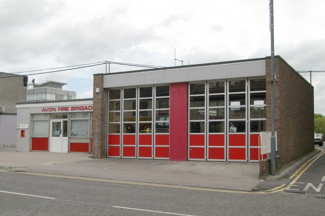 Keynsham Fire Station. Keynsham Fire Station, Temple Street, Keynsham, Somerset is station number 13 of Avon Fire and Rescue Service.